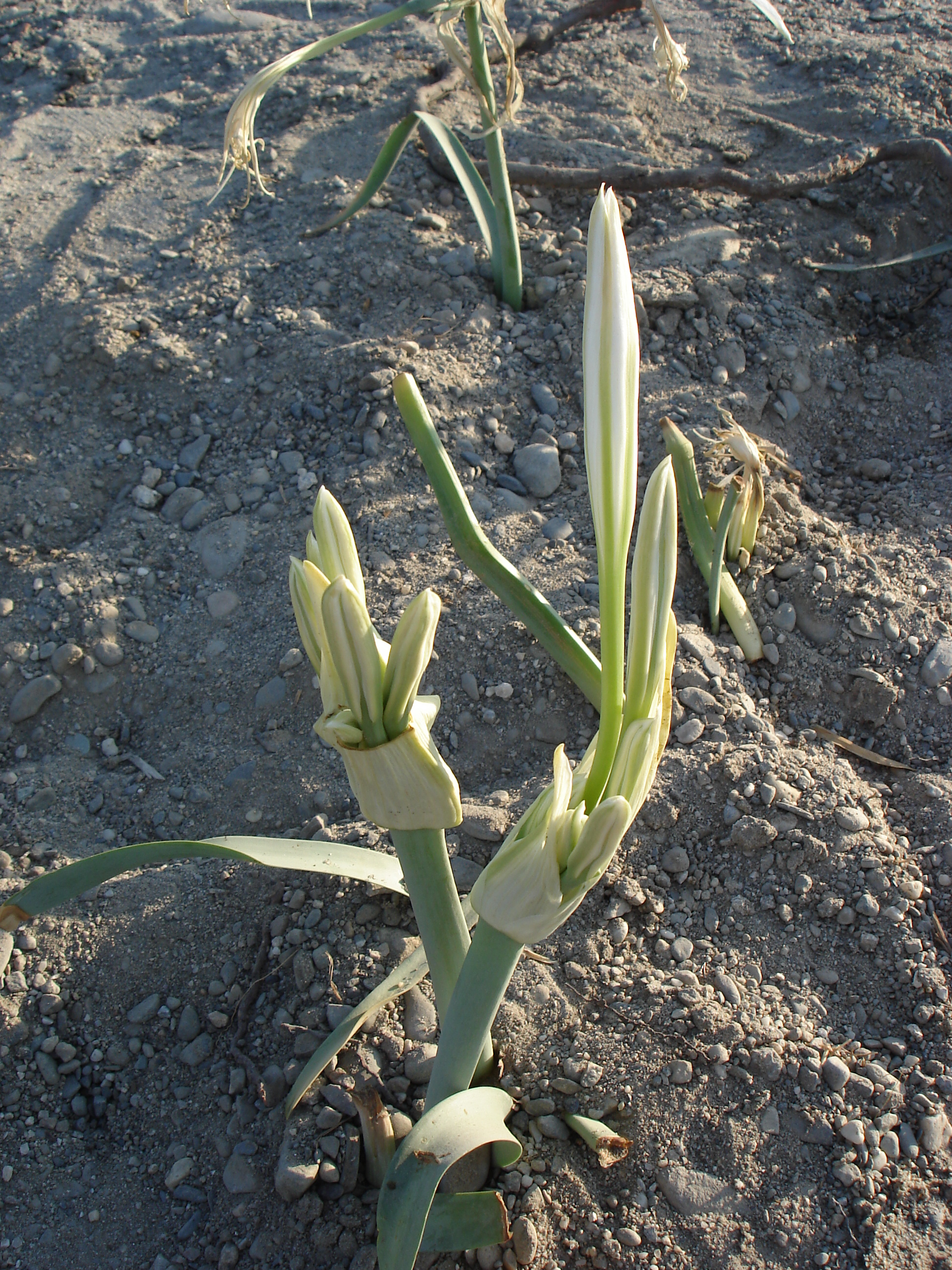 The flower of Pancratium maritimum, photographed in Northern Crete